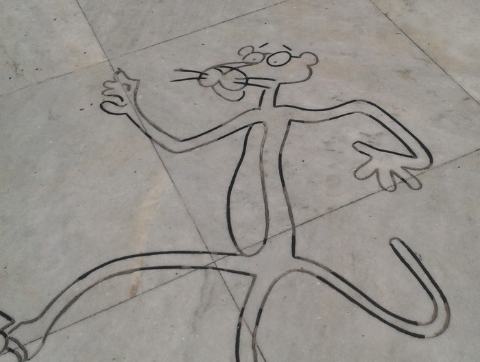 Permanent engraving of the Pink Panther on the monument in Plaza del Humor, A Coruña, Spain.